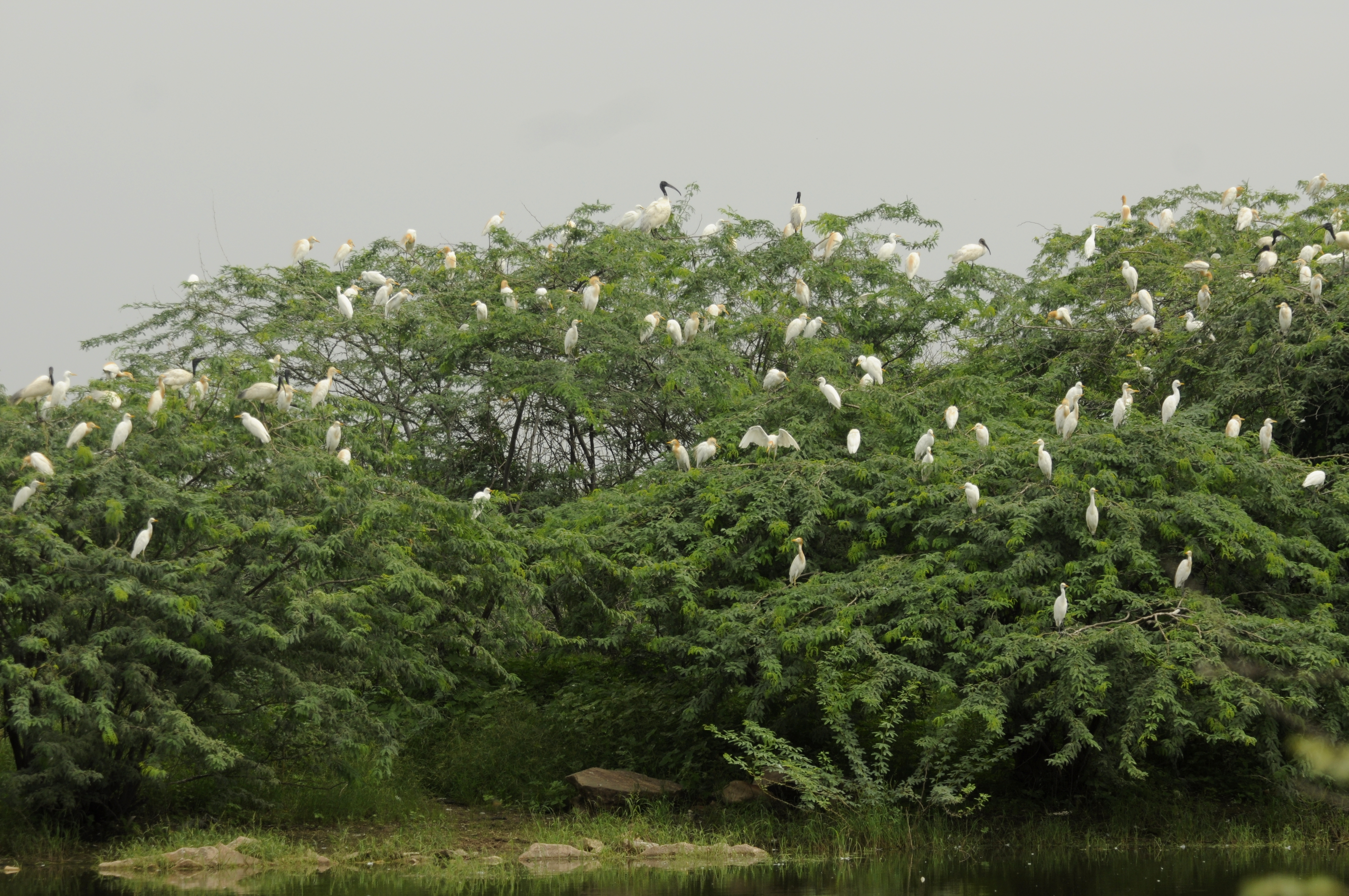 Colony of Cattle Egrets with some Black-headed Ibis near Jodhpur, Rajasthan, India